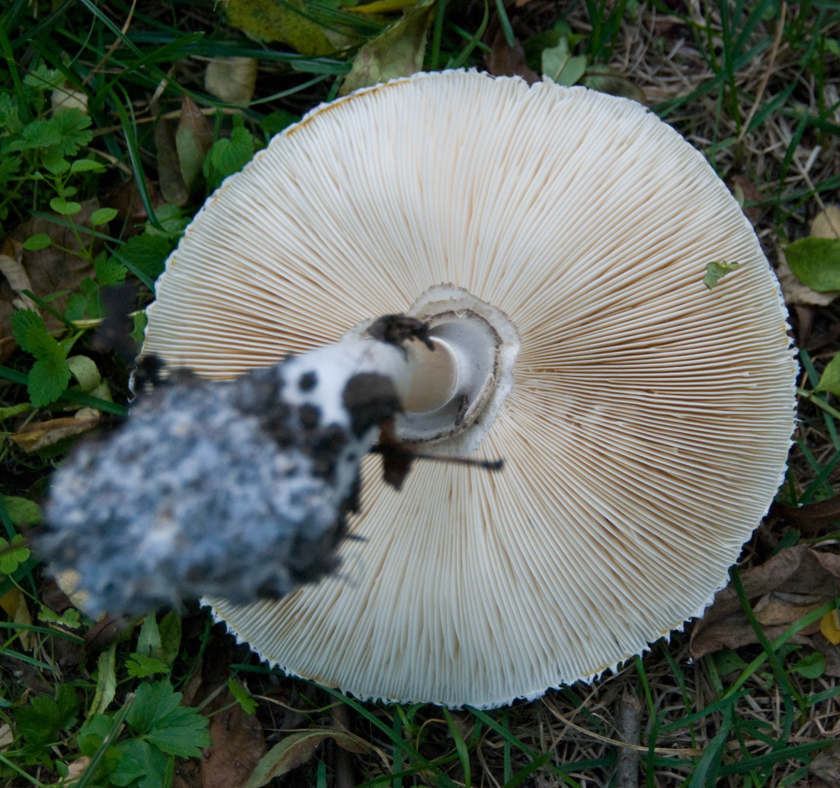 Macrolepiota rhacodes, 18 cm in diameter, spore print white, found in Central Serbia, Europe